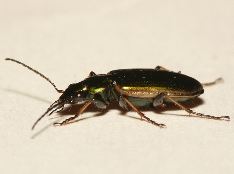 Agonum marginatum, Location: The Netherlands - Rhenen - Grebbeberg.